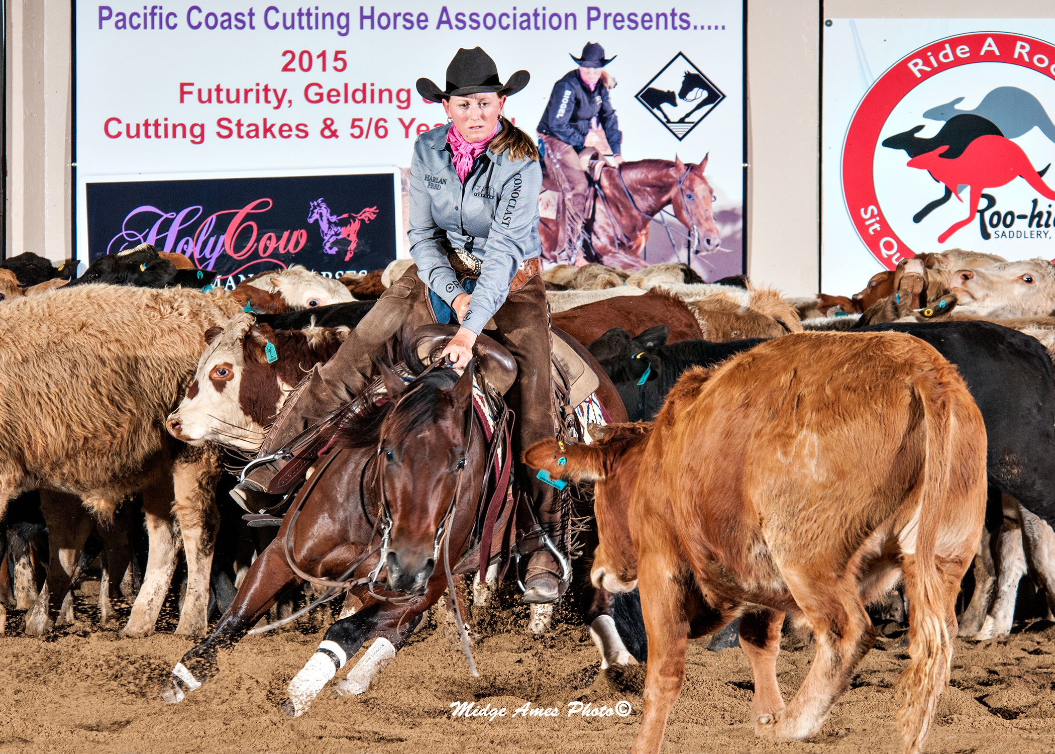 NCHA competitor Morgan Cromer showing Lil Bayhawk at the 2015 PCCHA Futurity